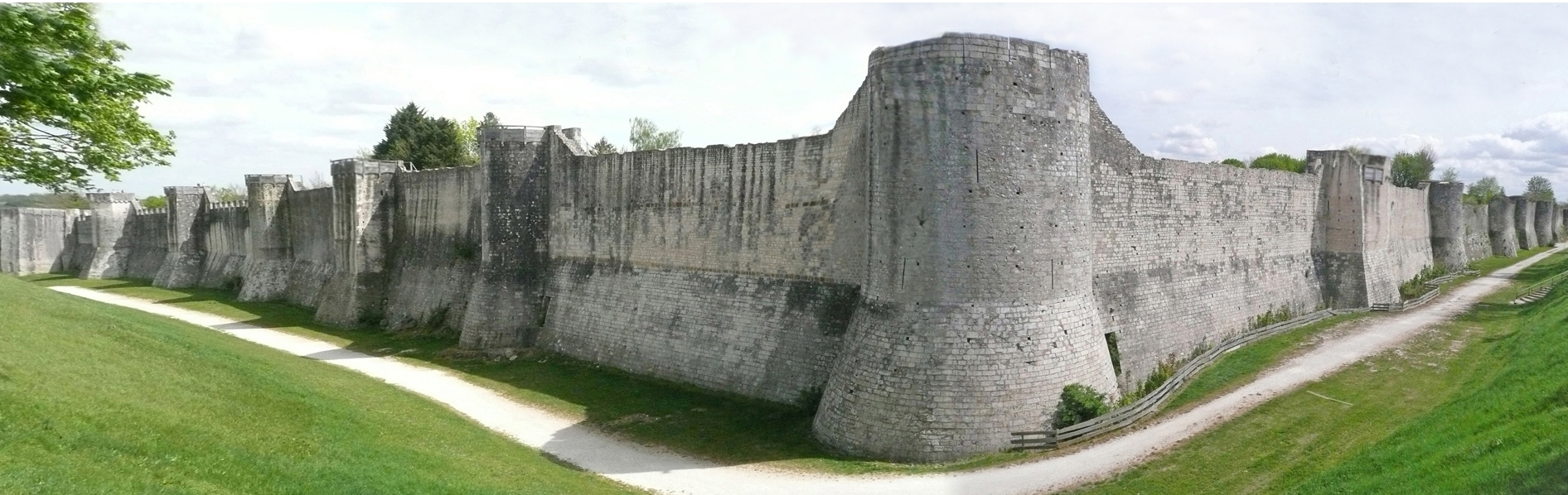 City walls of Provins